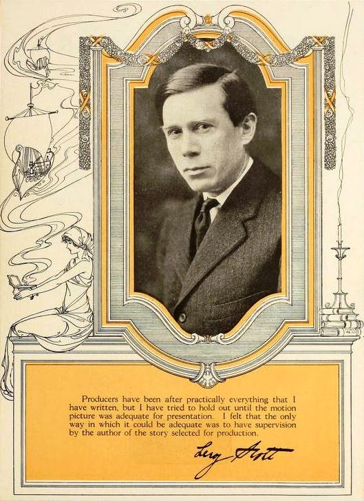 Screenwriter and author Leroy Scott in a 1919 ad for a film company, on page 451 of the July 12, 1919 Motion Picture News.